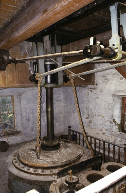 Dorothea beam engine - middle chamber The upper nozzles are partly dismantled and the beam had been chained down to the cylinder false cover. The parallel motion is also clearly visible.